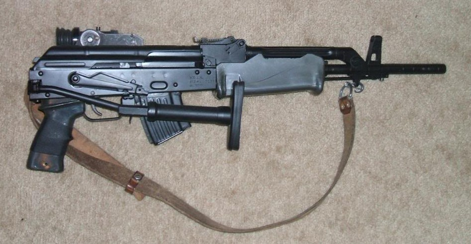 The right side of an AMP-69.